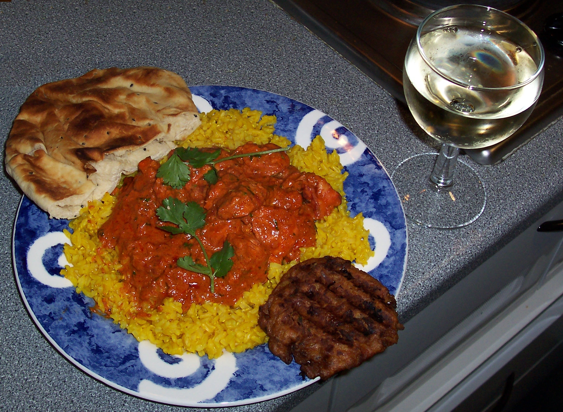 Chicken Tikka Masala served with naan bread, an onion bhaji and basmati rice coloured with turmeric and garnished with fresh coriander.